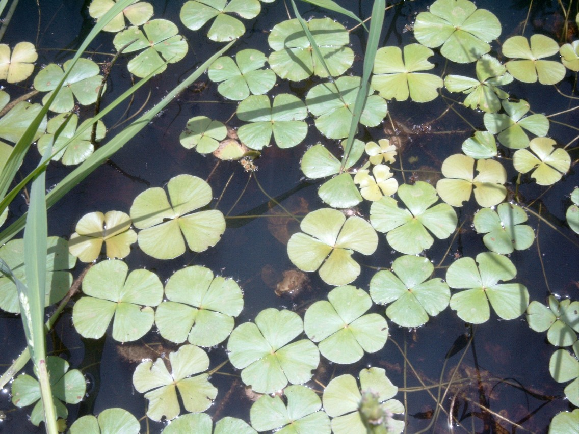 Marsilea sp. Marigot de Gorom-Gorom, Burkina Faso.